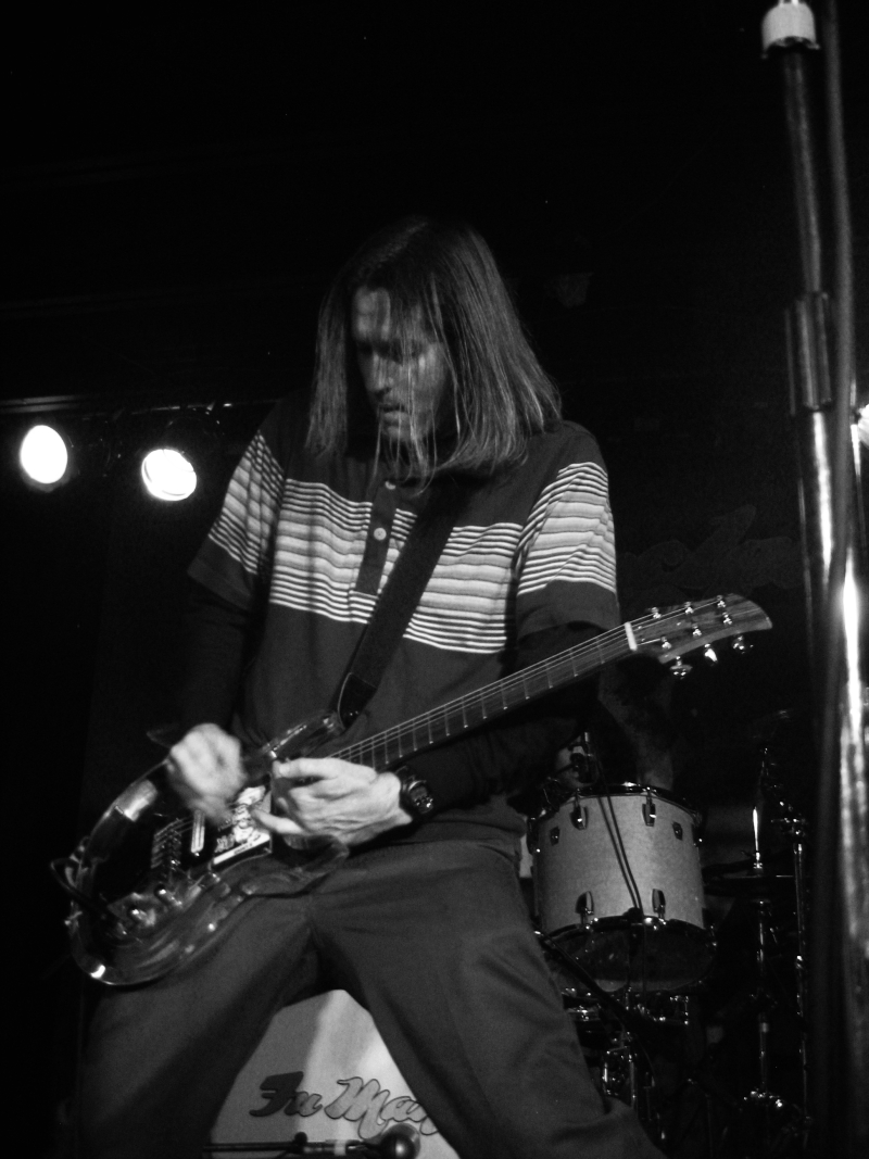 Scott Hill playing “Dan Armstrong Plexi” Fu Manchu live in The Black Sheep, Colorado Springs, 2007-03-06 No more frets You need the 30+ fret guitar Master Shake uses (which probably has the floppiest strings... ick).